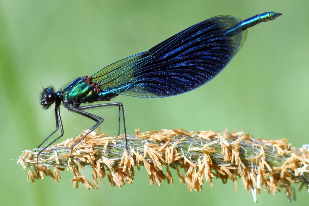 Banded Demoiselle (Calopteryx splendens), male